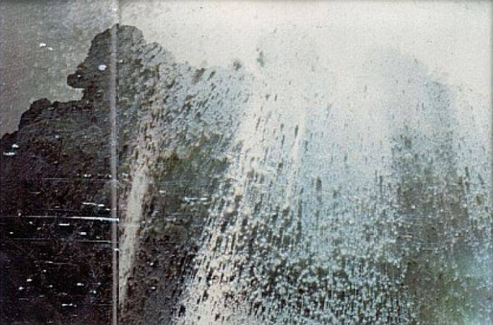 I could not upload this file within Wikipedia's existing structure unless I attributed it to myself. I claim zero responsibility to these photos but instead to Robert Landsburg who died protecting the attached photos. Should Wikipedia choose to remove these under my submission, I request they themselves upload them in his memory.